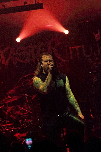 Sebastian Bastis Grochowiak of Witchmaster, Katowice, Mega Club, 18.12.2010